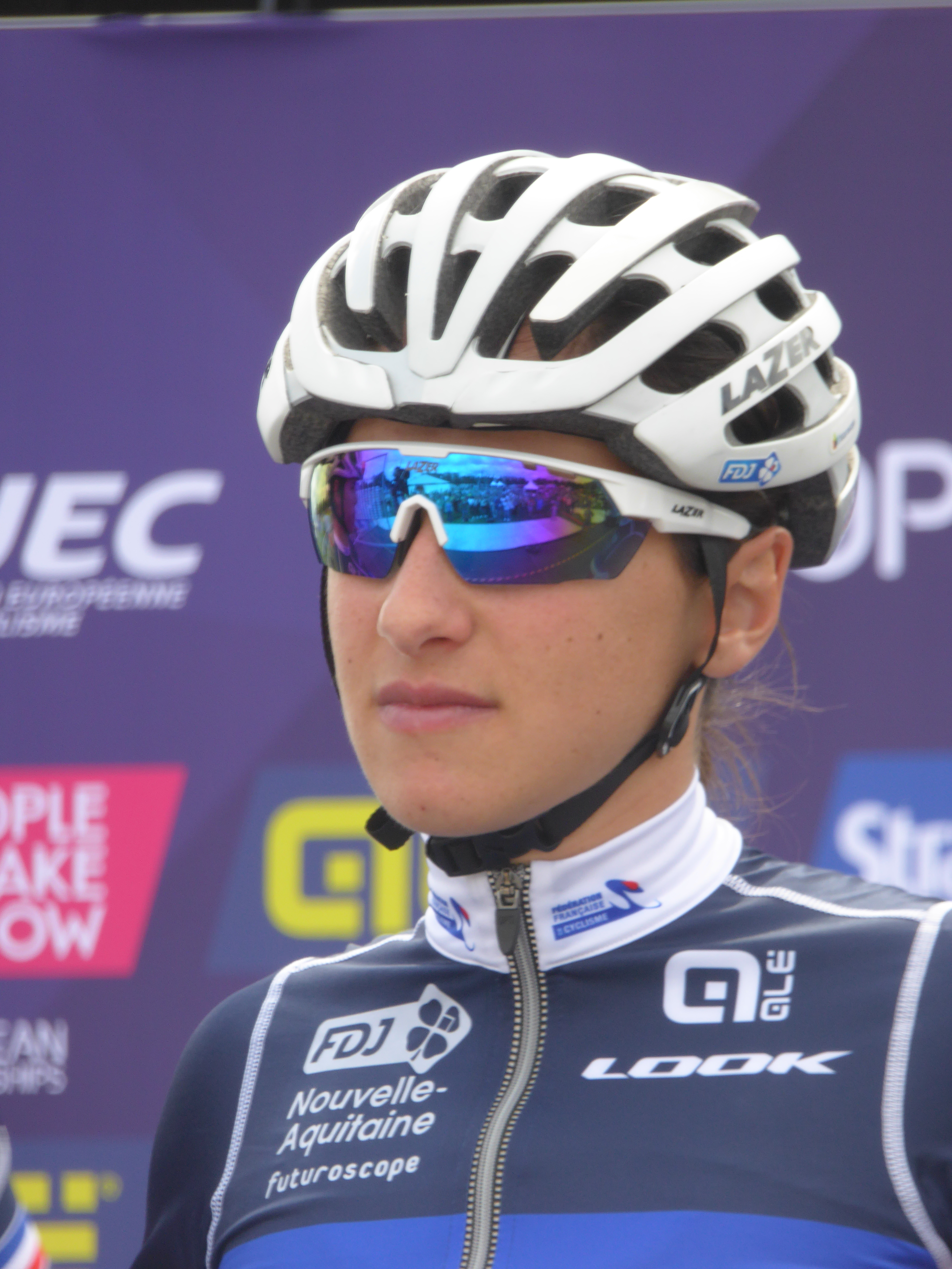 Eugénie Duval (France), prior to the women's road race at the 2018 UEC European Road Cycling Championships in Glasgow.